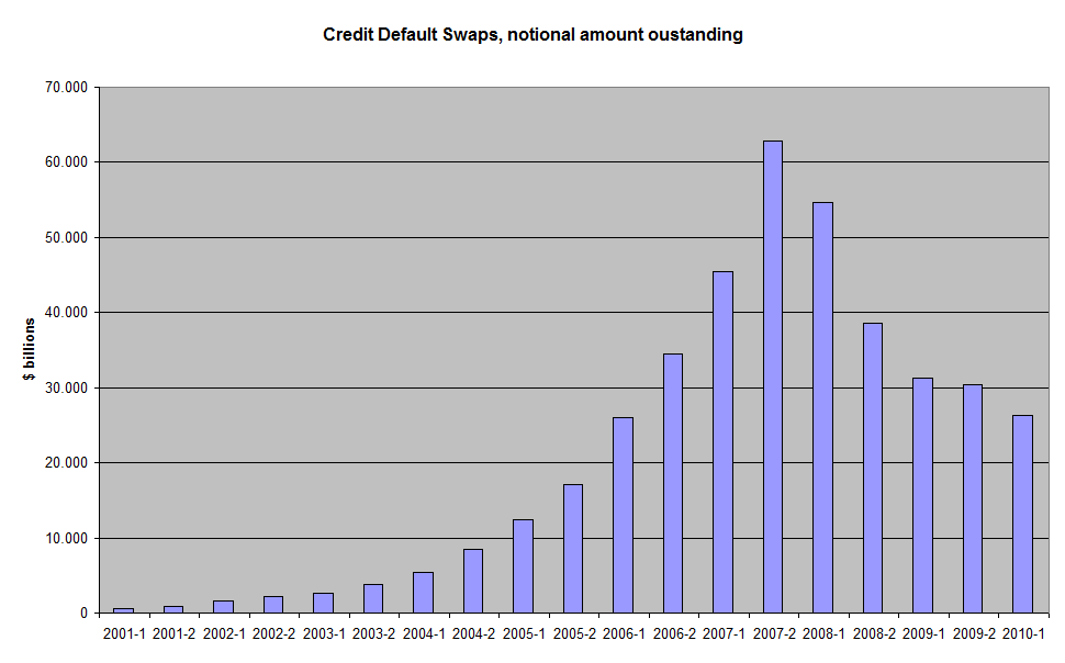 Development of notional amount outstanding of credit default swaps. Source: International Swaps and Derivatives Association, ISDA Market Survey, Used on Credit default swap.